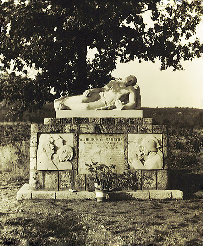 The monument "Martyrs du Bessillon" in Pontevès, Var, France, by the sculptor Victor Nicolas in 1949.